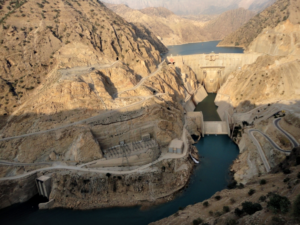 Karun-3 Dam